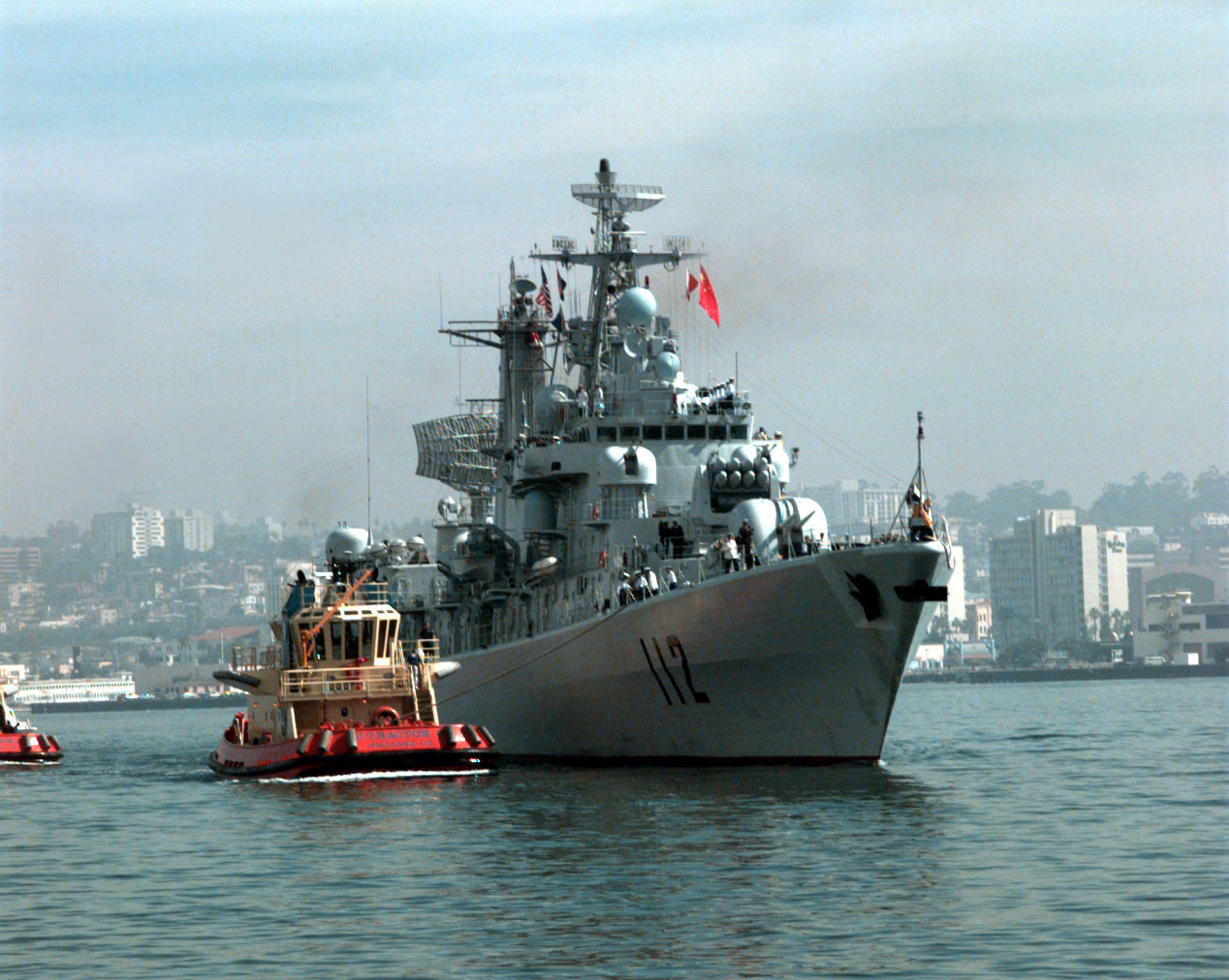 The People's Republic of China destroyer Harbin (DD 112) pulls into San Diego, Calif., on March 21, 1997, for a first-ever visit by People's Republic of China Navy ships to the mainland U.S. Harbin and two other People's Republic of China ships are visiting Southern California for the second part of a goodwill visit between the U.S. and Chinese navies. The ships visited Hawaii on their way to San Diego. The U.S. and the People's Republic of China navies are the two largest fleets in the Asia-Pacific region. Interaction between the two navies increases mutual understanding and confidence. During the visit Chinese sailors will have the opportunity to meet their U.S. Navy counterparts, tour U.S. ships and experience American culture in Southern California. The destroyers Harbin and Zhuhai, and supply ship Nancang will moor next to the U. S. Navy's aircraft carrier USS Constellation (CV 64), at Naval Air Station North Island. DoD photo by Petty Officer 2nd Class Felix Garza, U. S. Navy.